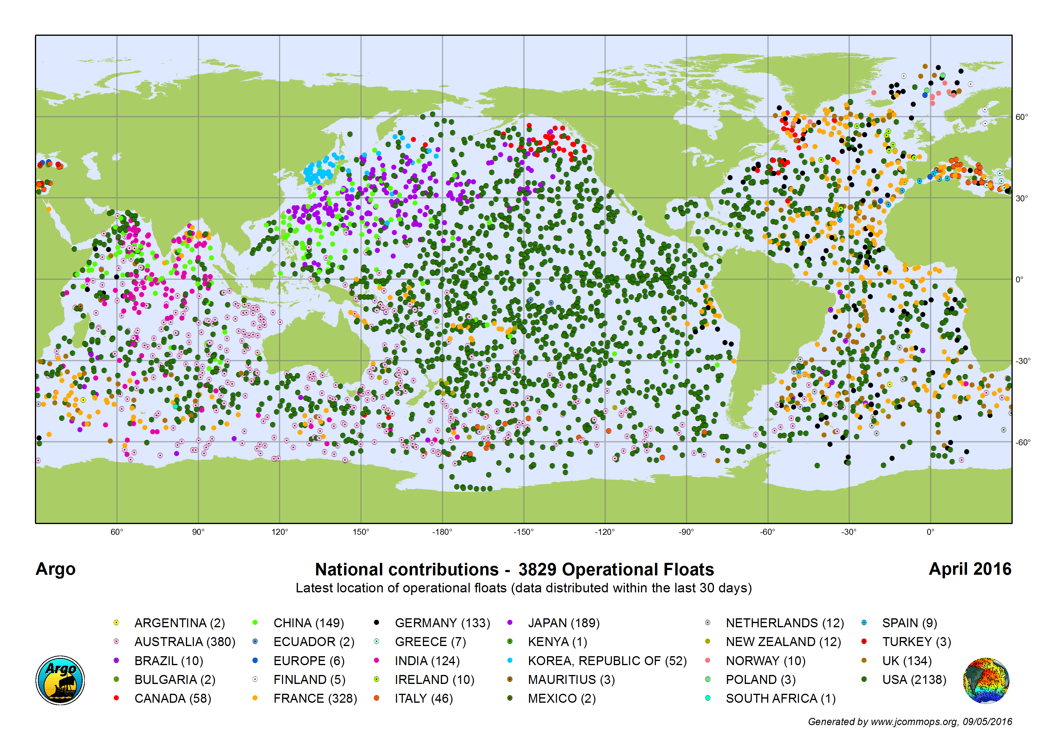 The distribution of active floats in the Argo array, colour coded by country that owns the float, as of the end of April 2016.